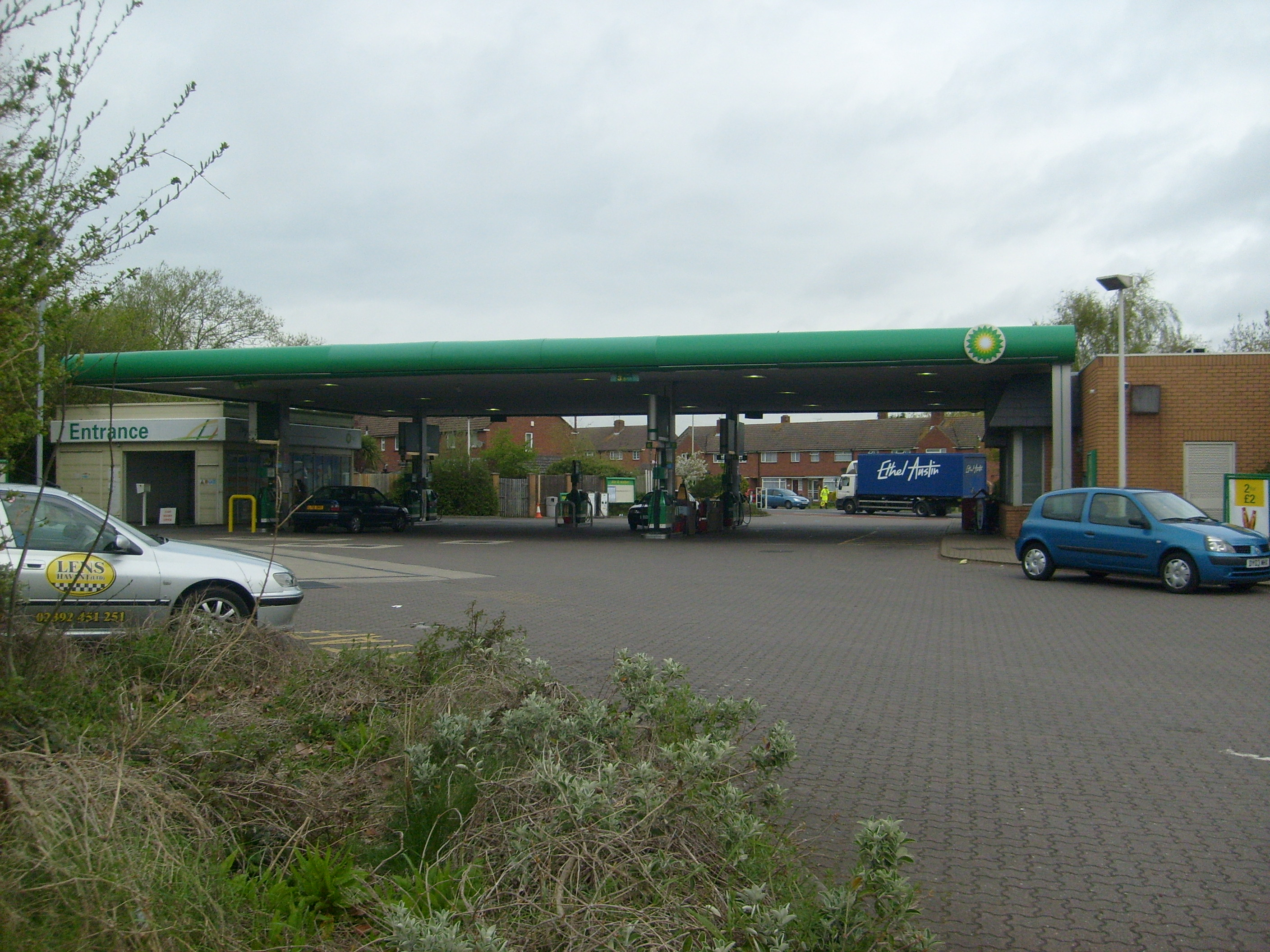 A BP Shop Petrol Station at the junction of Purbrook Way and Park Lane in Havant, Hampshire, UK.